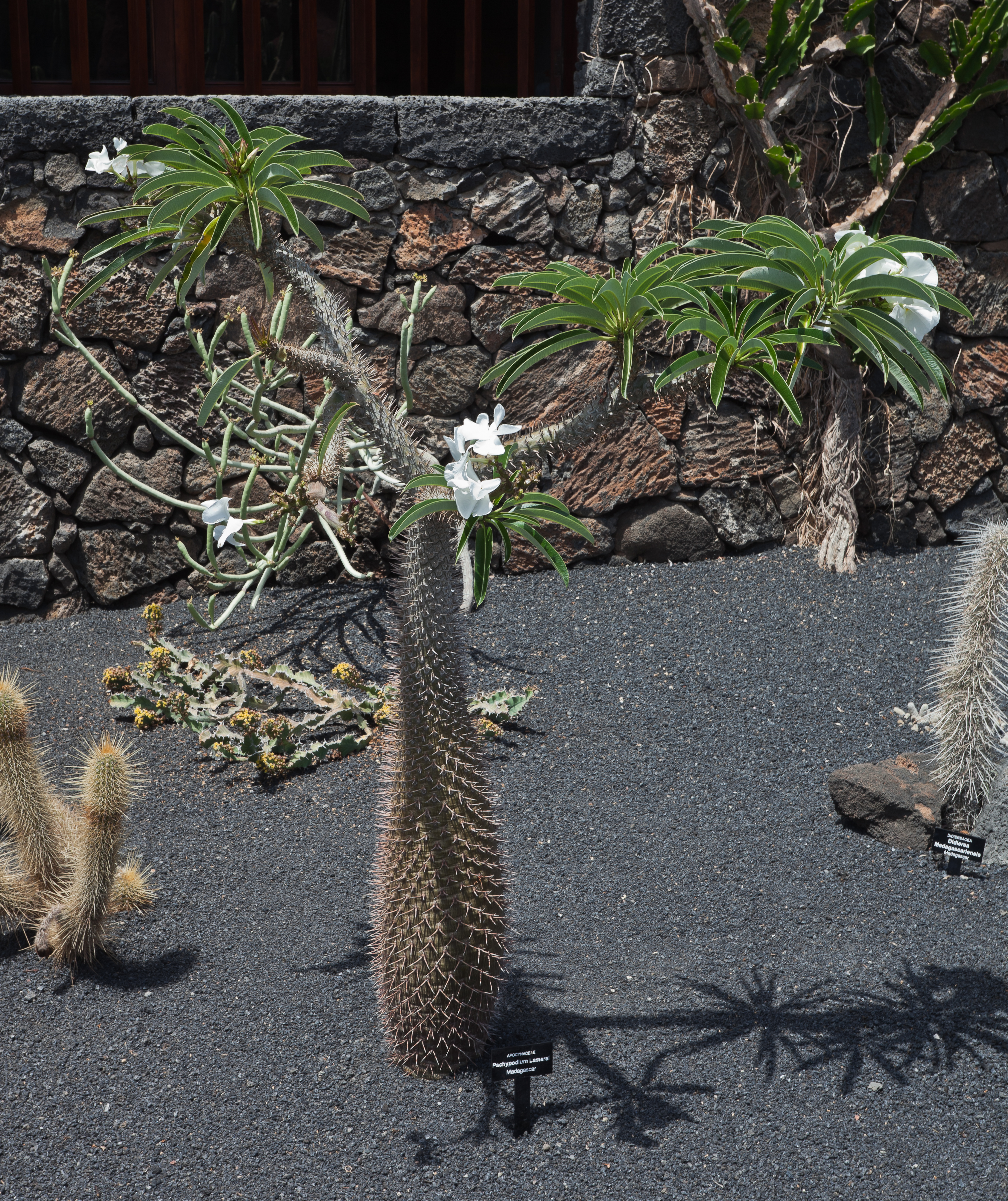 Opuntia macrocentra, Jardín de Cactus, Guatiza, Lanzarote, Spain